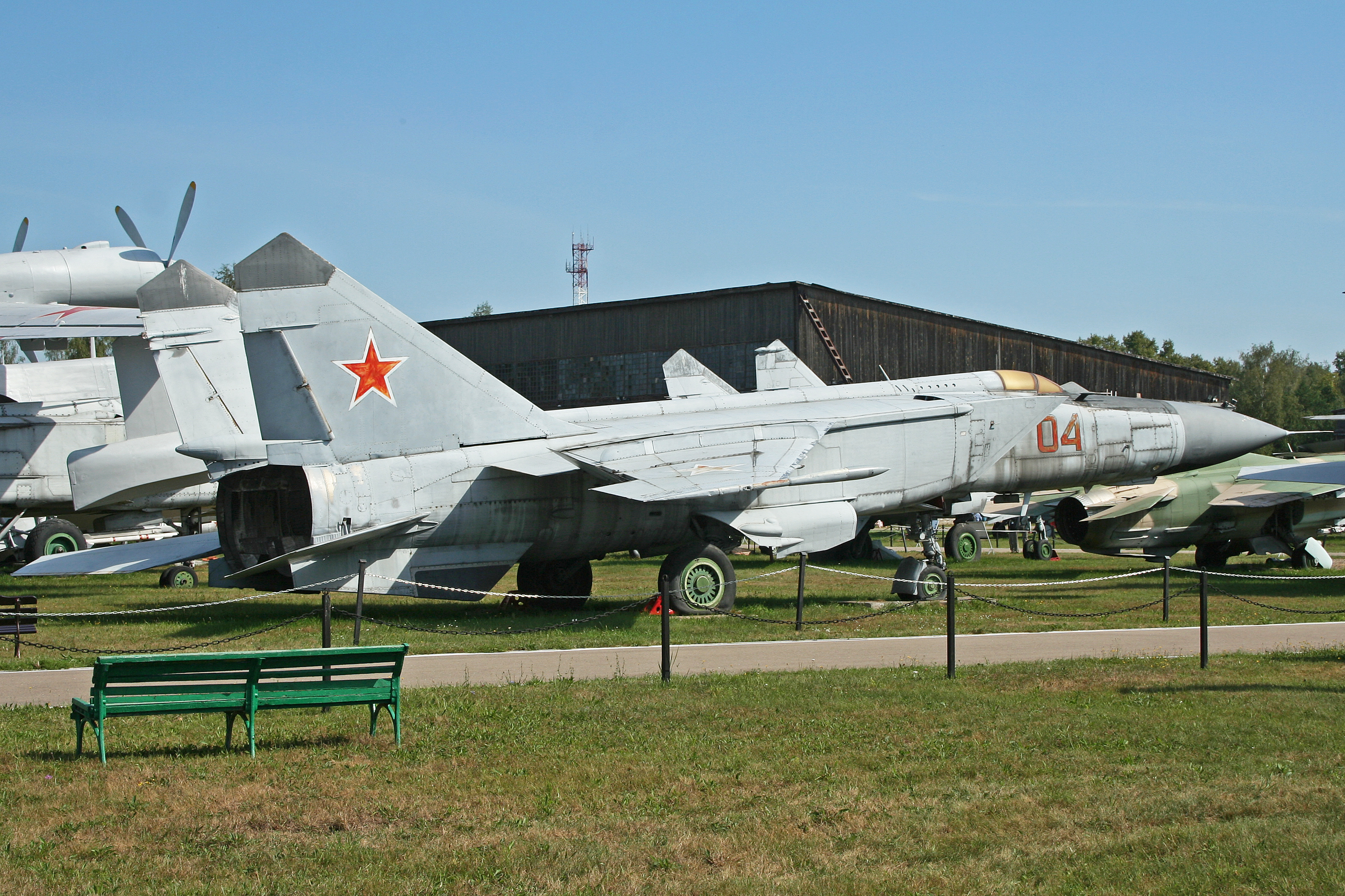 The PD was an improved interceptor version of the single seat Foxbat, with a 'look-down shoot-down' capability. c/n 0200001. On display at the Russian Air Force Museum. Monino, Russia. 13-8-2012